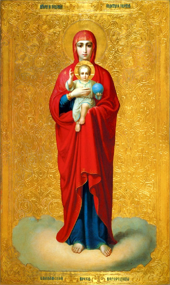 The icon of Our Lady of Valaam